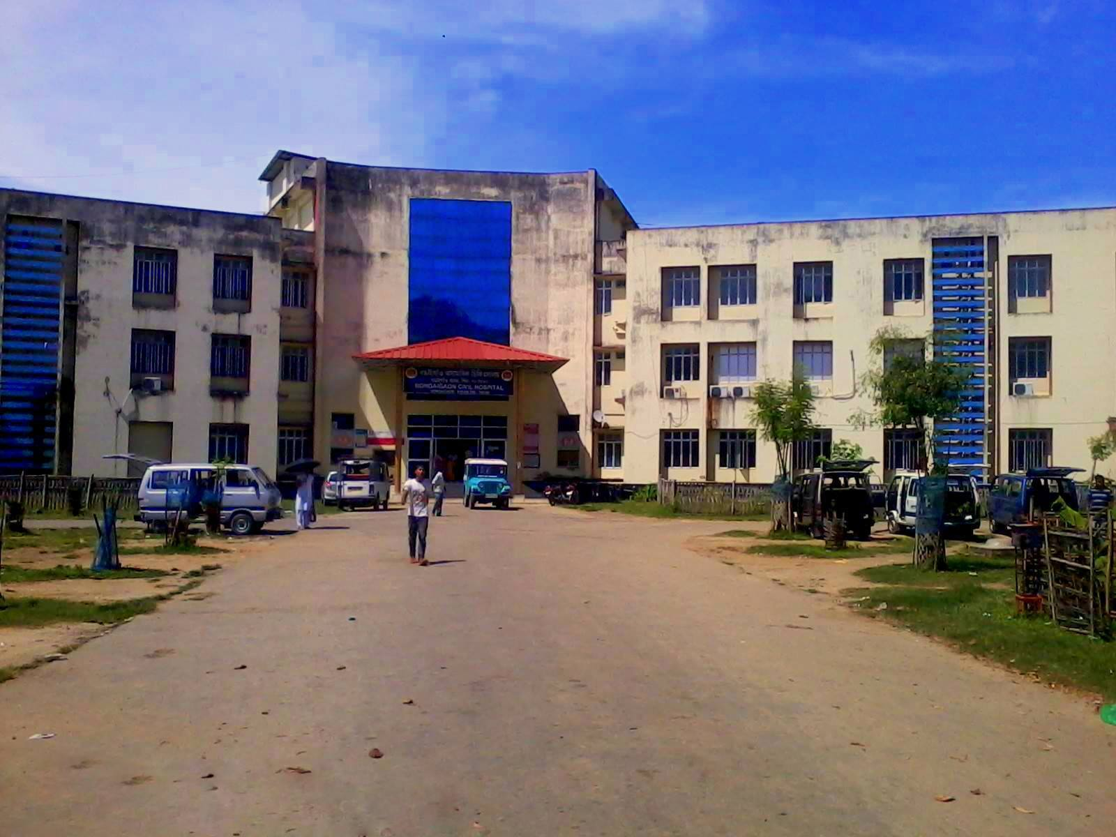 photo